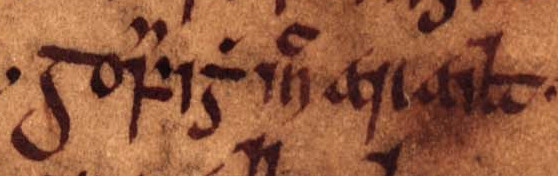 An excerpt from folio 15r of Oxford Bodleian Library MS Rawlinson B 488 (the Annals of Tigernach): "Gofraidh mac Arailt". The excerpt concerns Gofraid mac Arailt, King of the Isles (died 989).